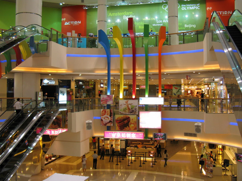 Artium of Olympian City 1